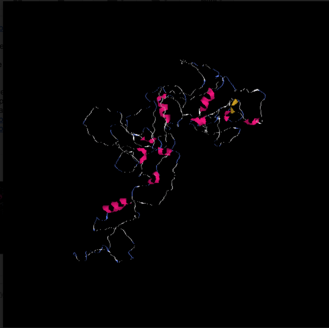 3D Representation of C16orf46